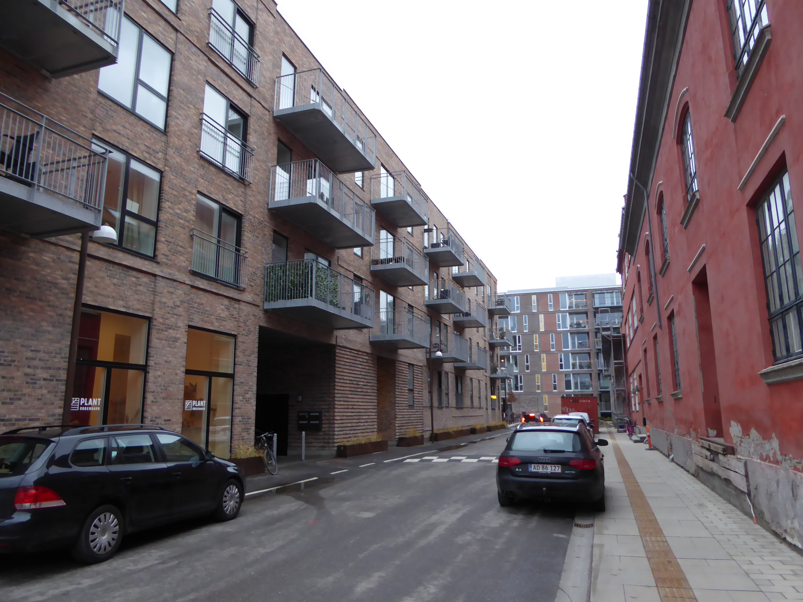 The street Bilbaogade in Nordhavn in Copenhagen. At the left the apartment building Central Park.